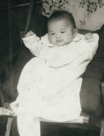 Yoshinori Ōsumi is a biologist in Japan.